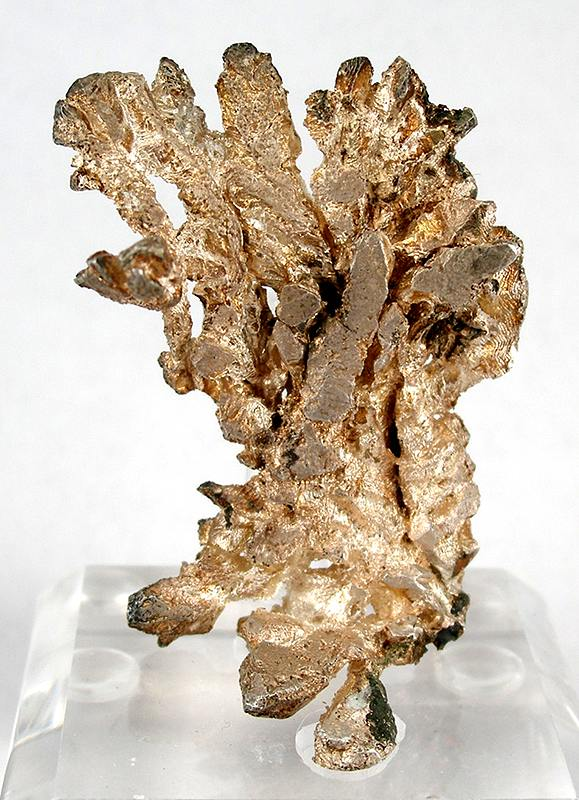 Silver Locality: Cliff mine, Phoenix, Keweenaw County, Michigan, USA (Locality at ) Size: miniature, 5.5 x 3.7 x 2.8 cm Silver This fine, old silver appears to be a floater, with no visible points of attachment. It is composed of several exquisitely crystallized, dendritic, branching wires which culminate in crystals to 1.1 cm in length. The location, the historic Cliff Mine, was Americas first major copper mine, dating to the 1840s. Silvers of this caliber are exceedingly scarce today, and tend to come out of museum collections and a few major private stashes only at this point.